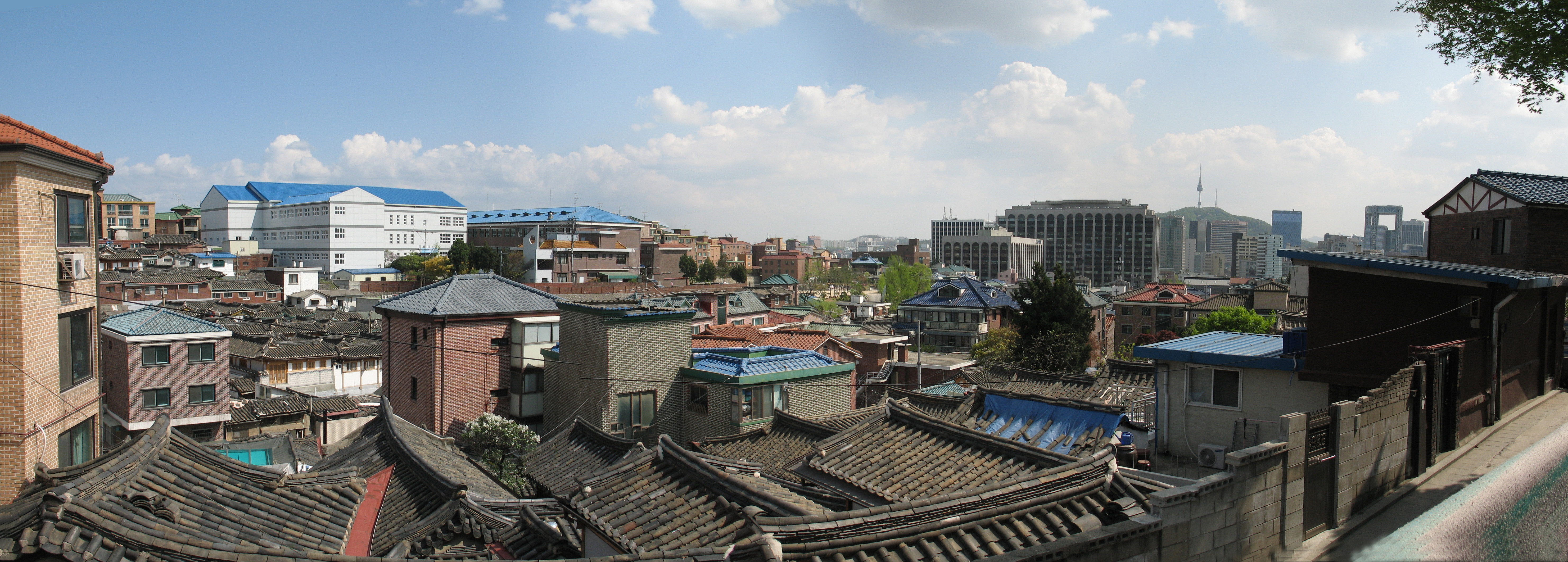 Bukchon Hanok Village in Jongno-gu, Seoul, South Korea